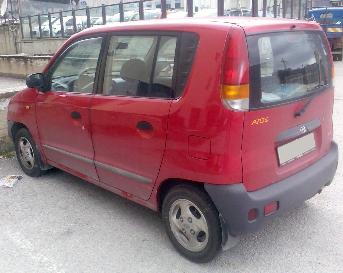 Hyundai Atos